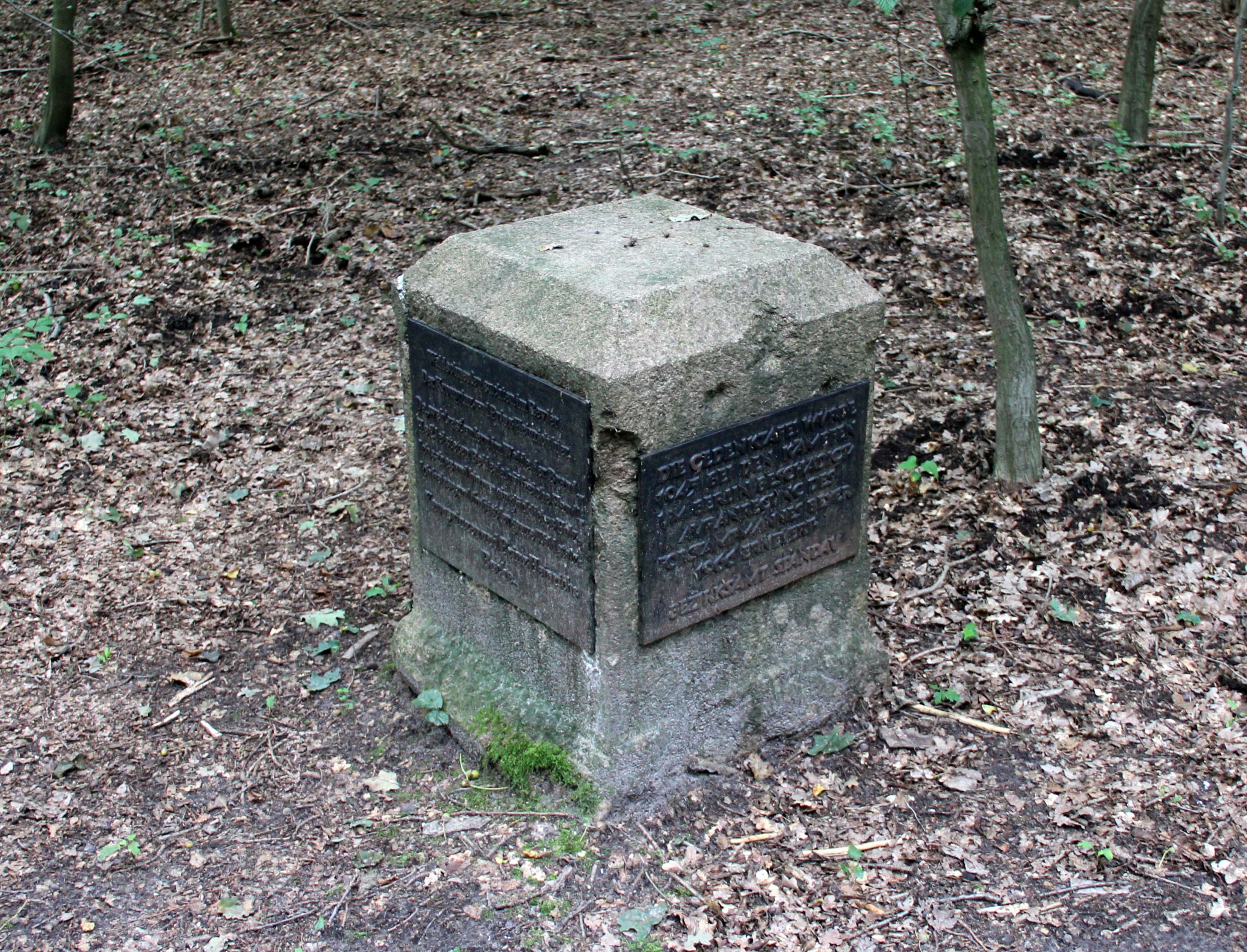 Memorial stone, Kronprinzenbuche, Forst Spandau Jagen 69, Berlin-Hakenfelde, Germany